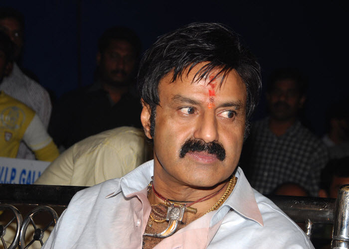 Nandamuri Balakrishna at Prema Kaavali Movie Launch.